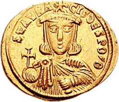 Nicephorus I and Stauracius. 802-811 AD. AV Solidus (4.43 gm, 6h). Constantinople mint. Struck 803-811 AD. :NICI-FOROS bASILE', crowned bust of Nicephorus, wearing chlamys, holding cross potent and akakia :STAVRA-CIS dESPOIX, similar crowned bust of Stauracius, holding globus cruciger and akakia. DOC III 2b.3; SB 1604.